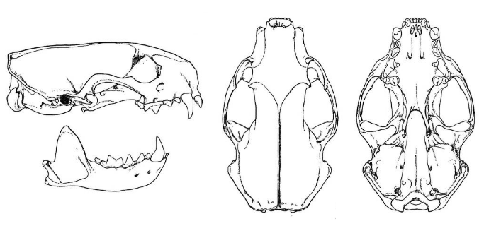 skull of the polecat, based on Gerrit smith mustelaputorius.png